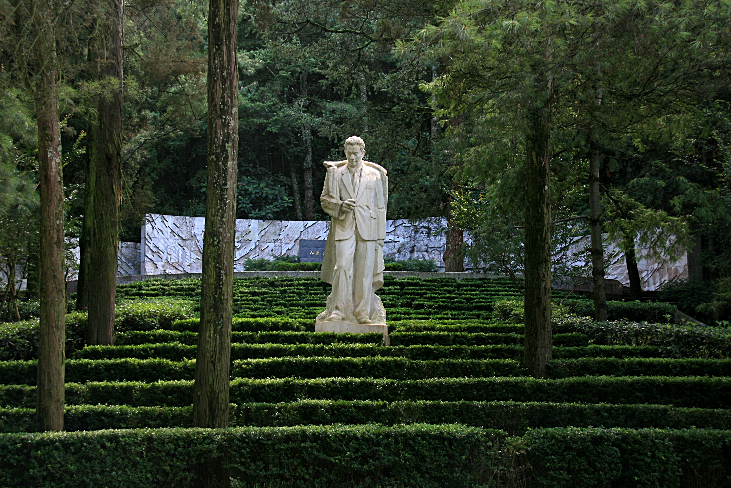 Photograph of the tomb of Nie Er in the Western Hills Forest Reserve, Kunming, Yunnan Province, China.